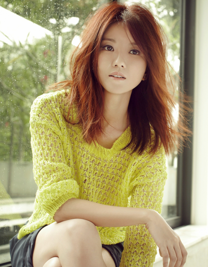 Joi Chua, Singaporean female singer